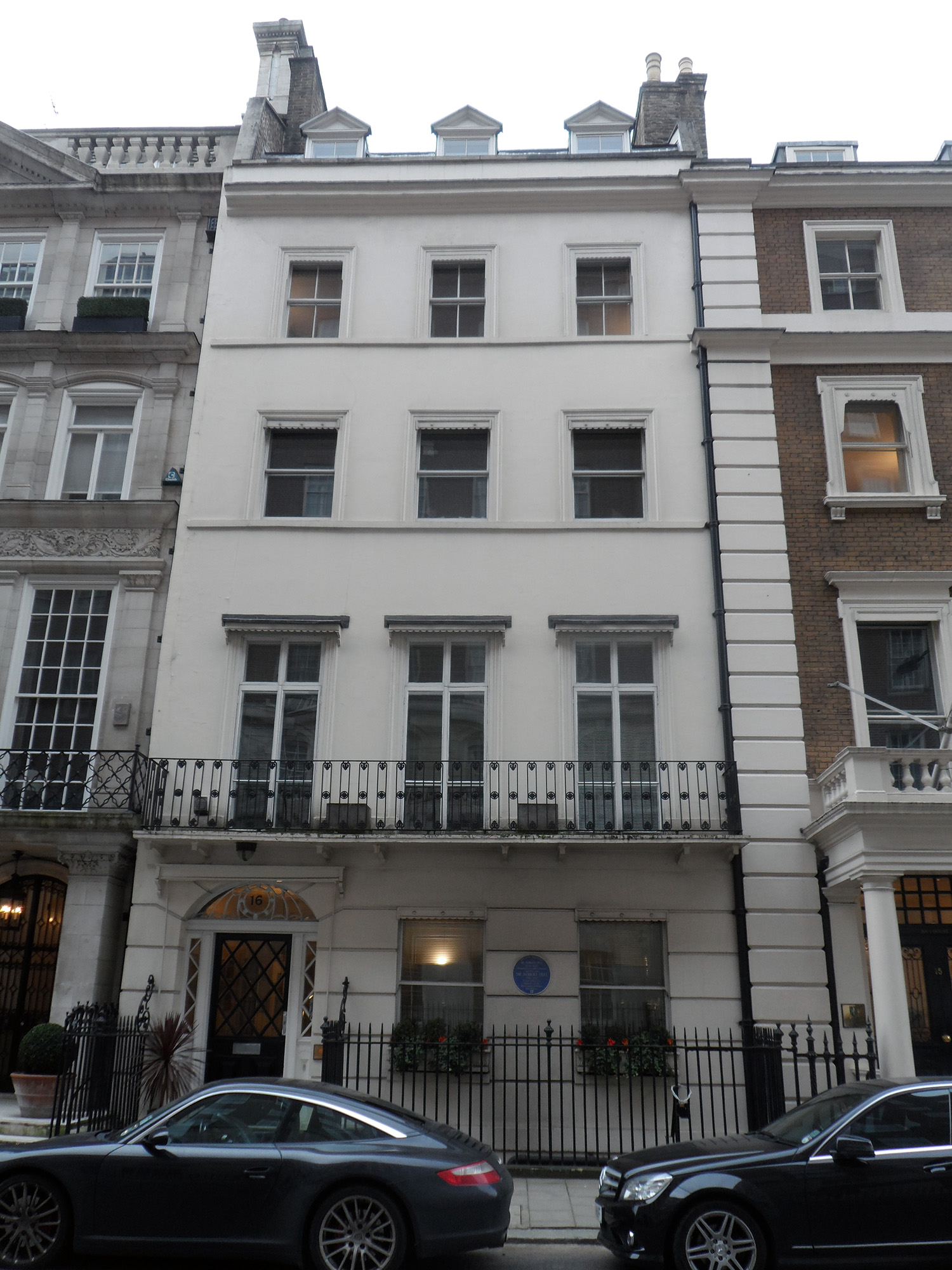 SIR ROBERT PEEL 1750-1830 Manufacturer and reformer and his son SIR ROBERT PEEL 1788-1850 Prime Minister Founder of the Metropolitan Police lived here